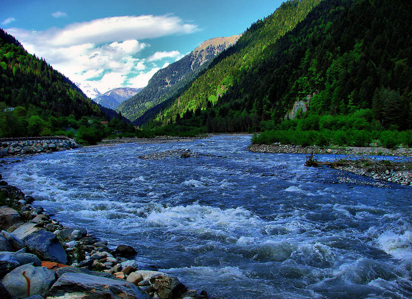 Rioni River in Georgia (Europe)